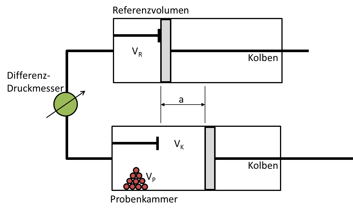 Gaspyknometer Constant Pressure Schematic